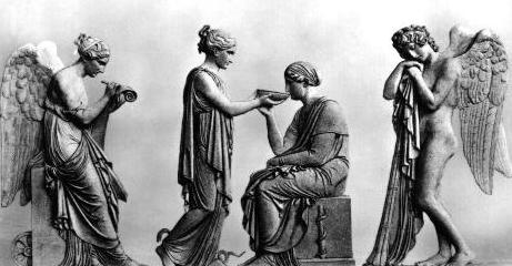 Auguste Böhmer, offering her mother Caroline Böhmer to drink, burial sculpture